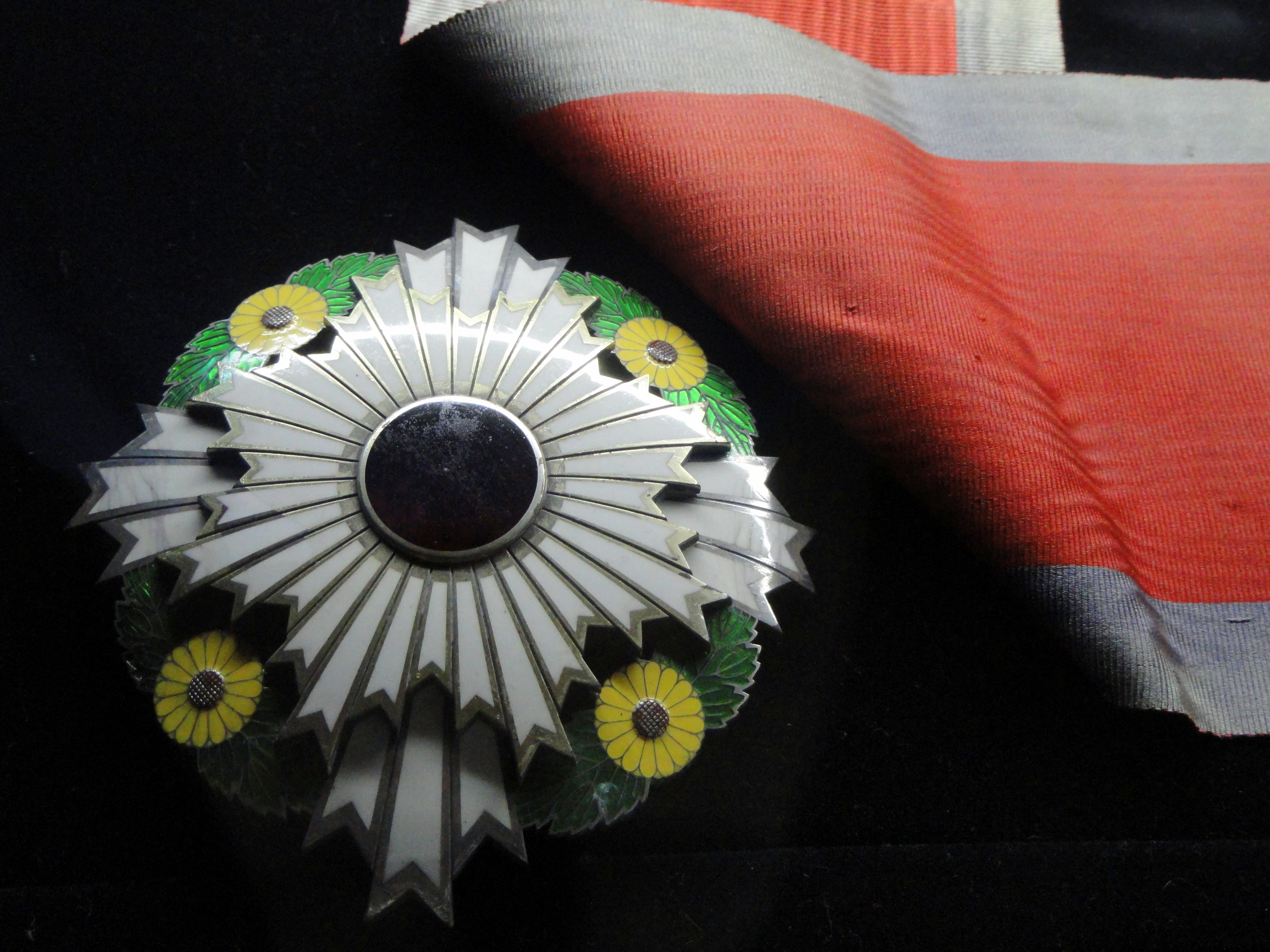 IExhibit in the Memorial JK, Brasília, Brazil.